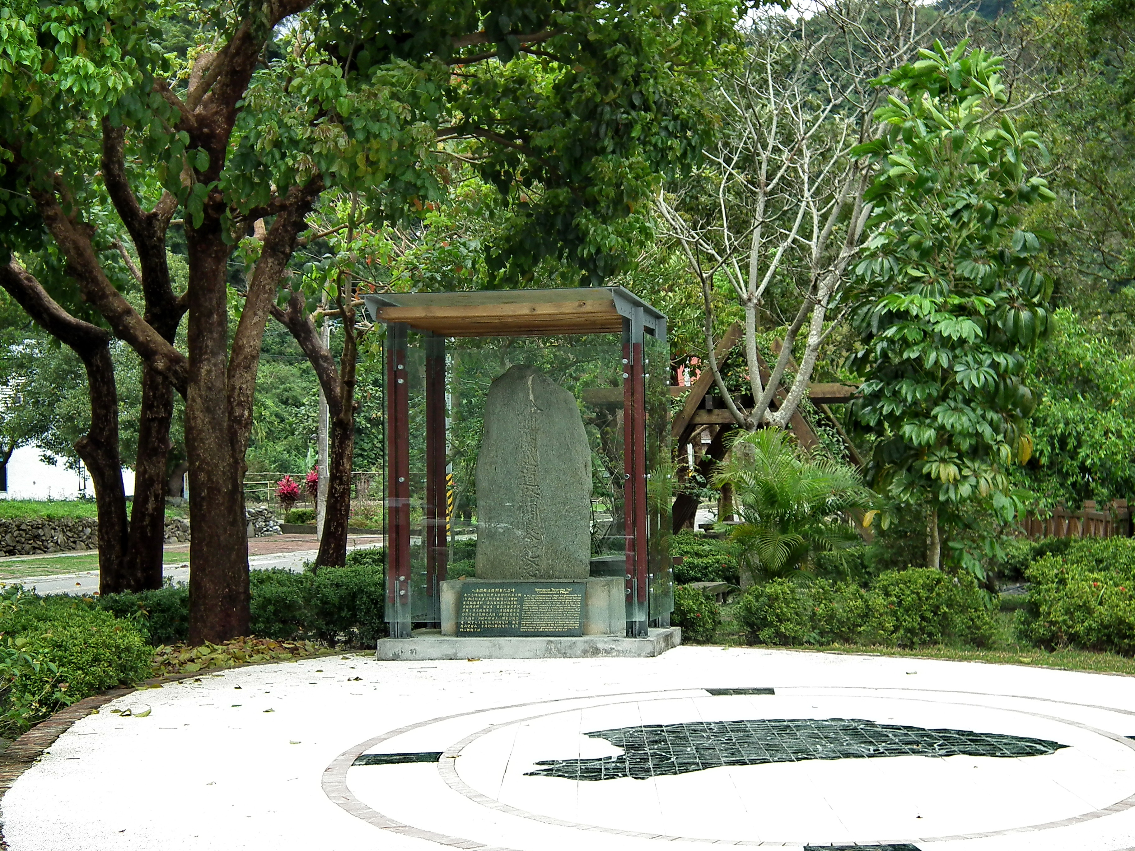 Batongguan Traversing Trail Commenmorative Plaque 八通關越道開鑿紀念碑